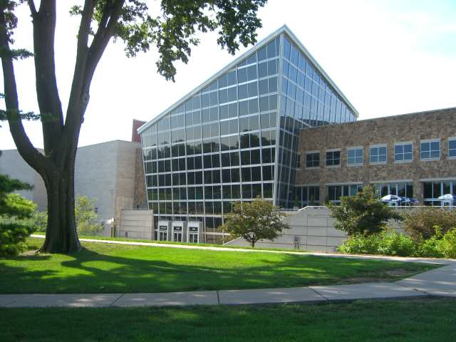 Indiana State Museum, in Indianapolis, Indiana, United States.